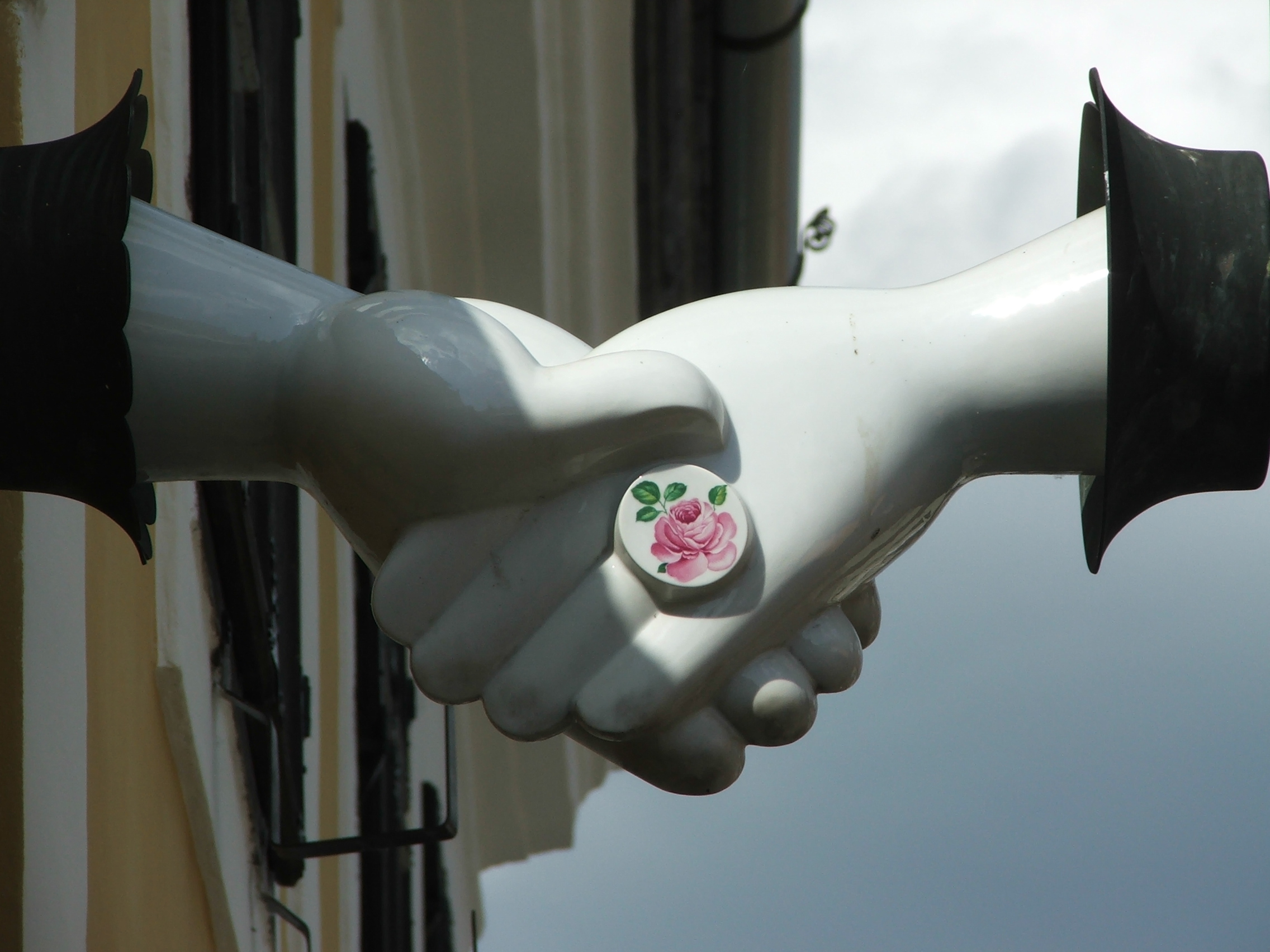 Sign on the Imre Amos and Margit Anna Museum in Szentendre